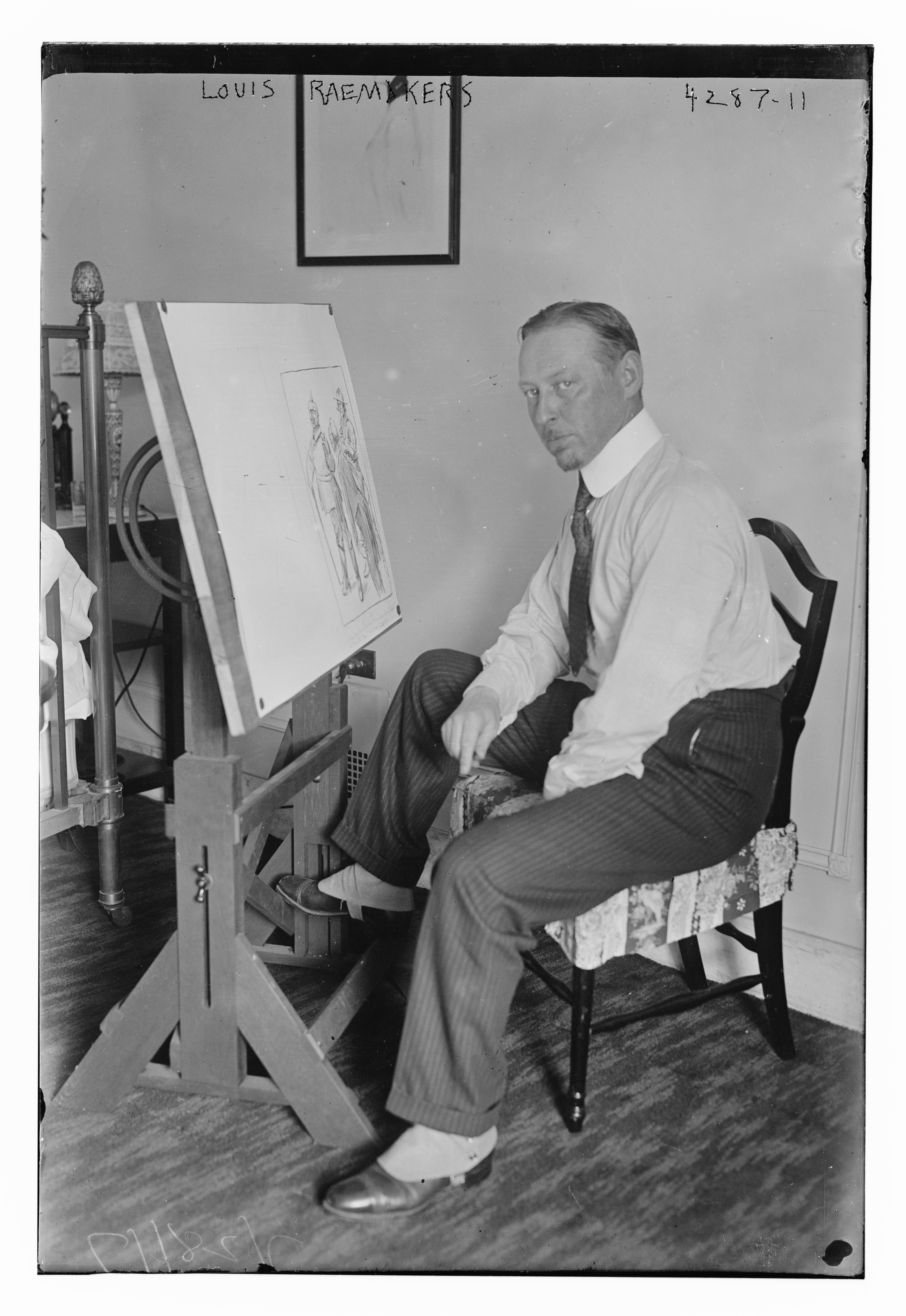 Louis Raemaekers in his studio on July 28, 1917